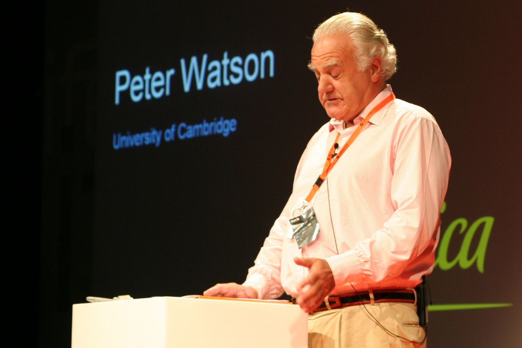 image of author peter watson giving a presentation at cambridge university